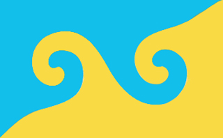 This is the correct color and geometric proportions of the Karmapa flag